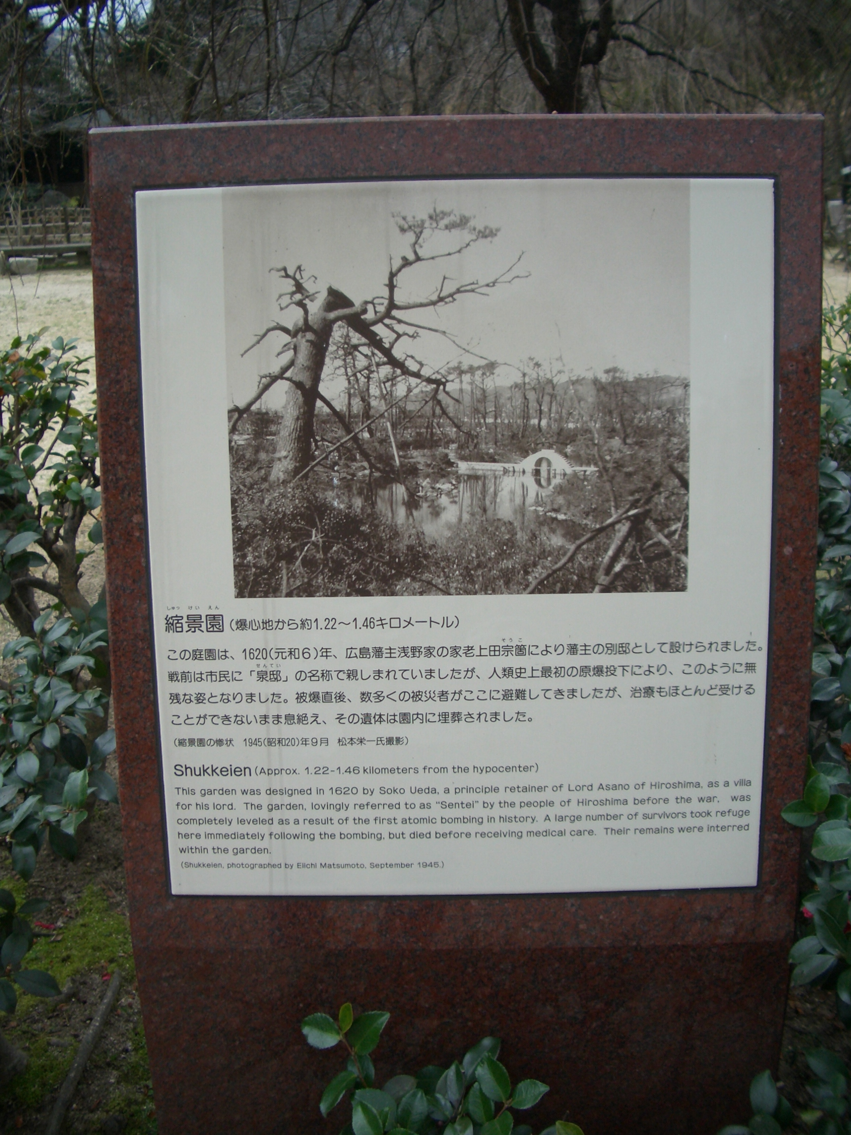 Historical plaque at Shukkeien Garden describing the events of the atomic bombing (Hiroshima)